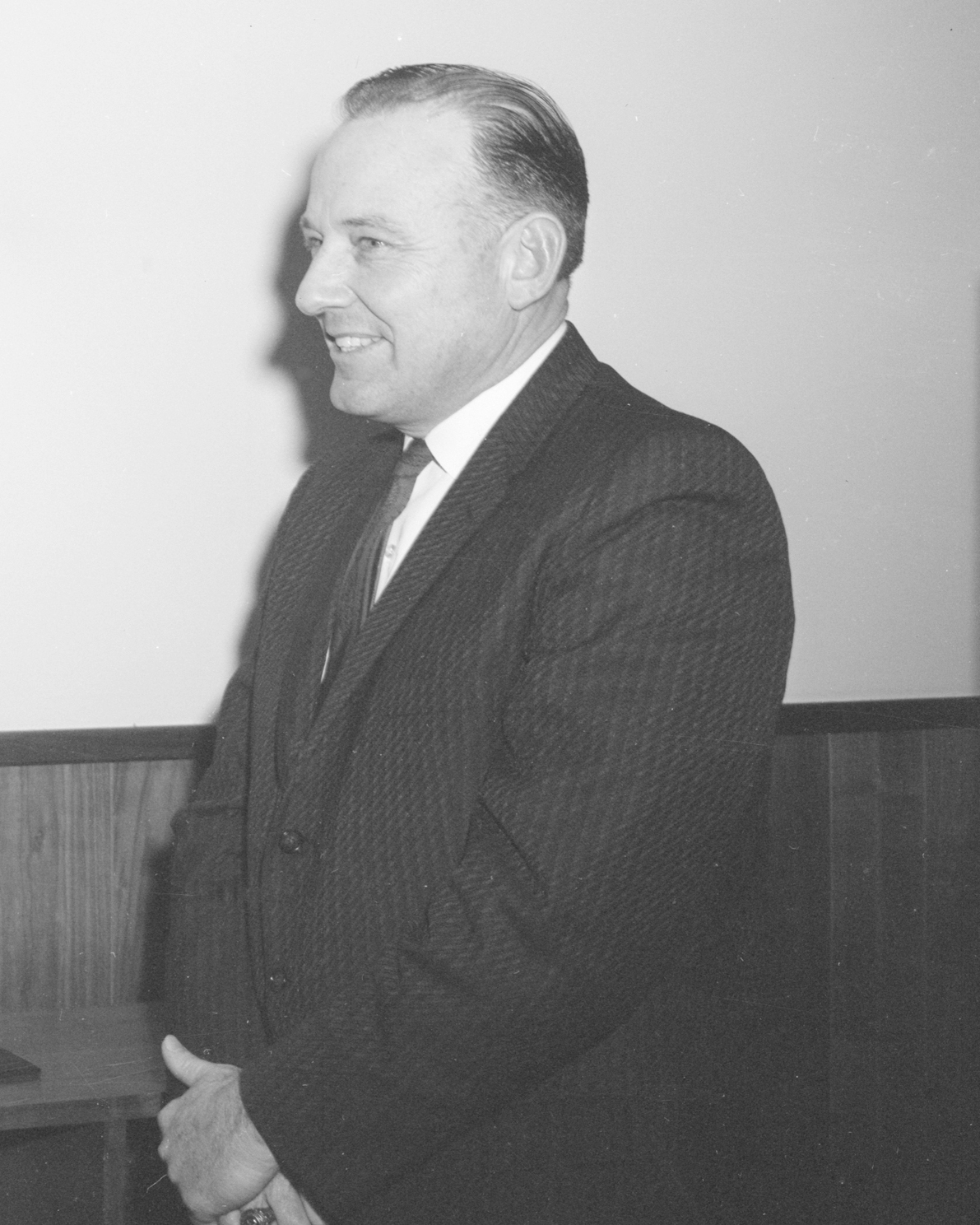 Joe D. Waggonner. This image is based on File:VonBraunWaggoner.jpg by NASA